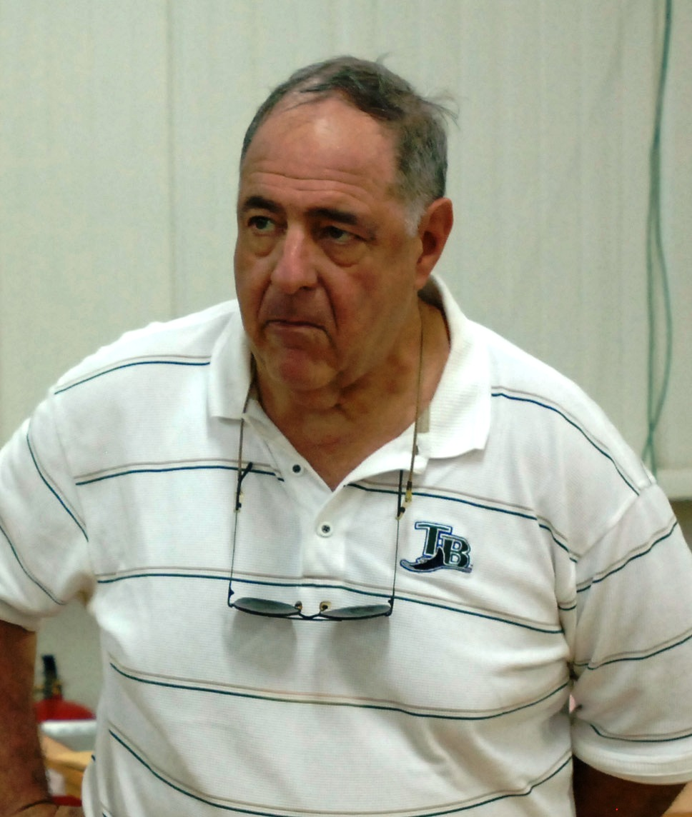 Vincent Naimoli (pictured), owner of the Tampa Bay Devil Rays talks to a U.S. Army Soldier from 1st Battalion, 187th Infantry Regiment, 101st Airborne Division at Forward Operating Base Summerall, Iraq, June 22, 2006, as part of a USO tour.